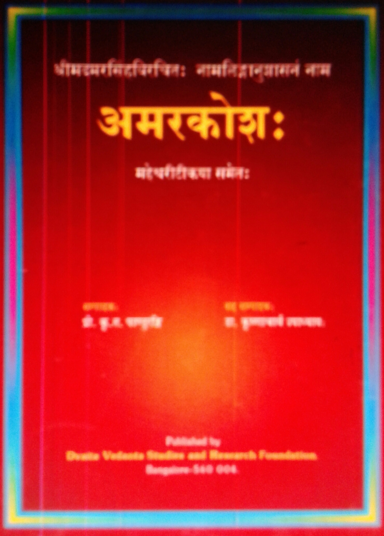 vocabulary of sanskrit roots